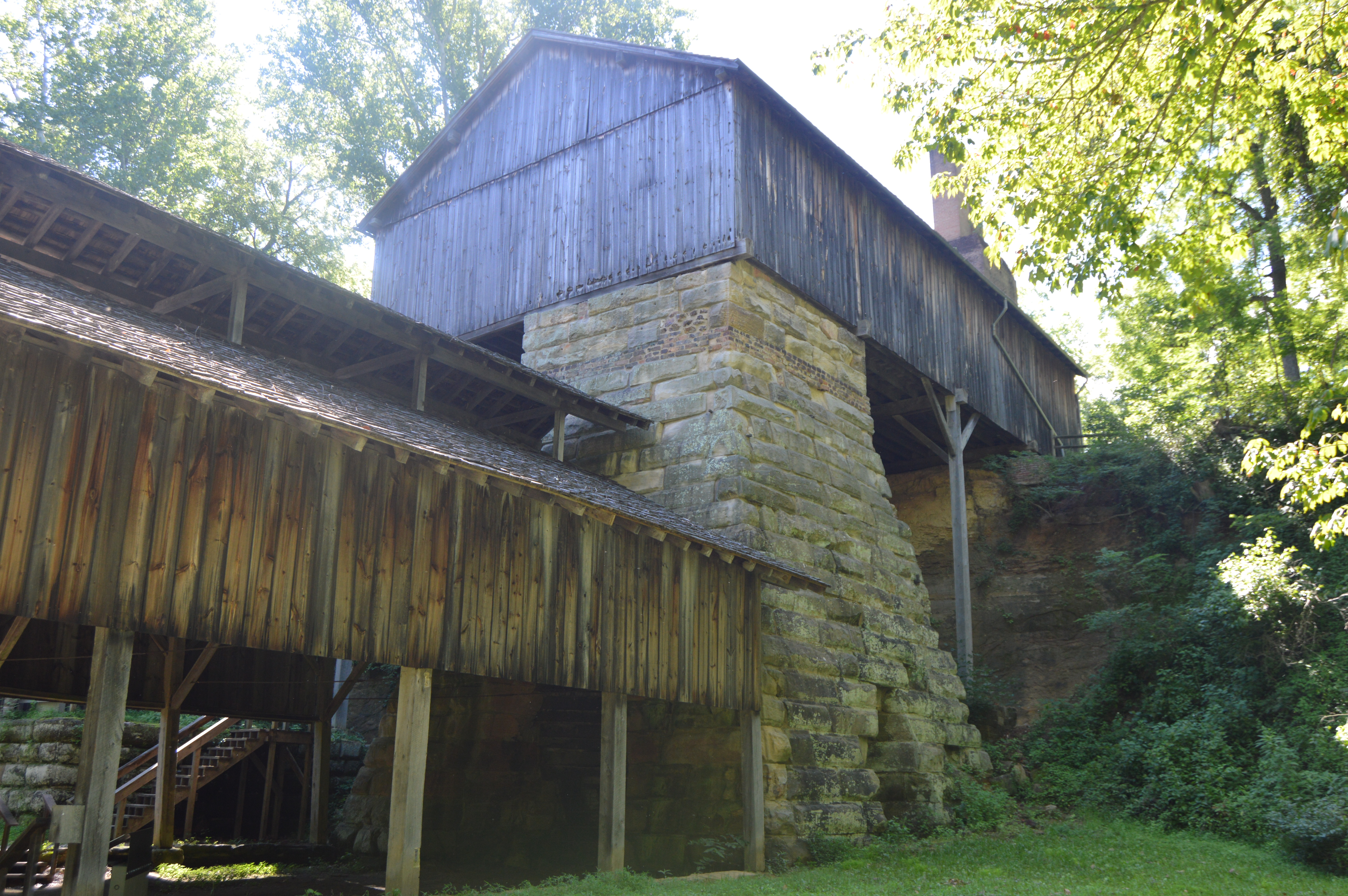 Western side of the Buckeye Furnace complex, located at Buckeye Furnace State Memorial southeast of Wellston in Washington Township, Jackson County, Ohio, United States. Built in 1851 and rebuilt in 1972, it is listed as a historic district on the National Register of Historic Places.